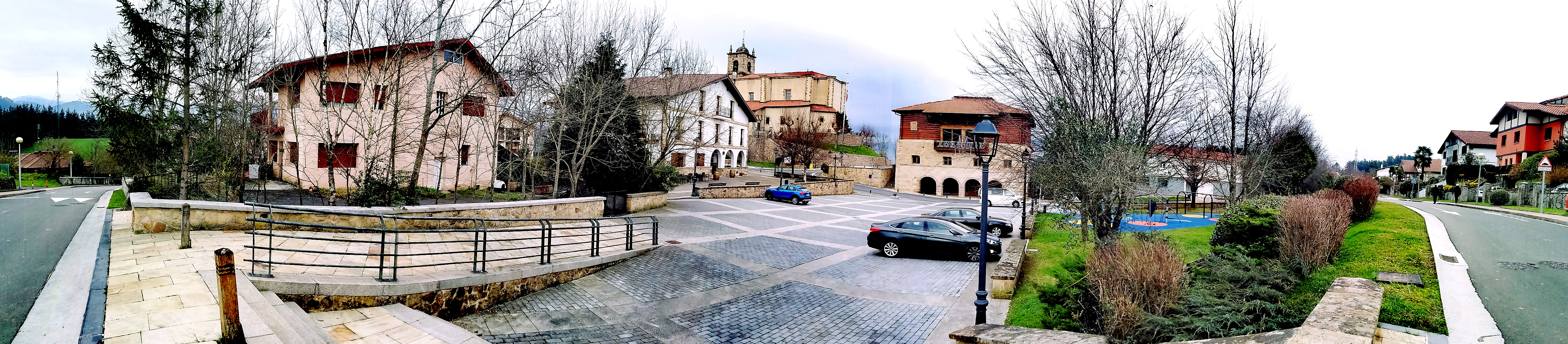 Olaberria, Gipuzkoa, Basque Country